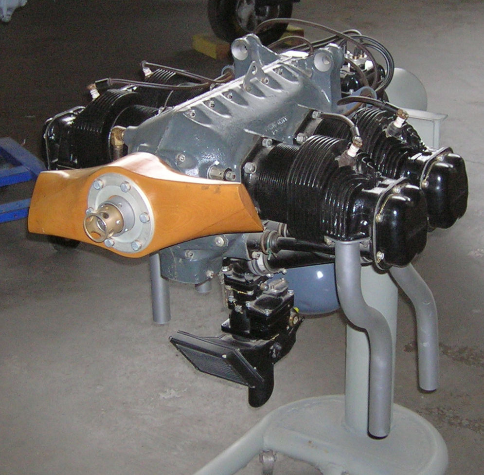 Continental O-170-3 flat-4 engine, Wings Over The Rockies, Denver, Colorado